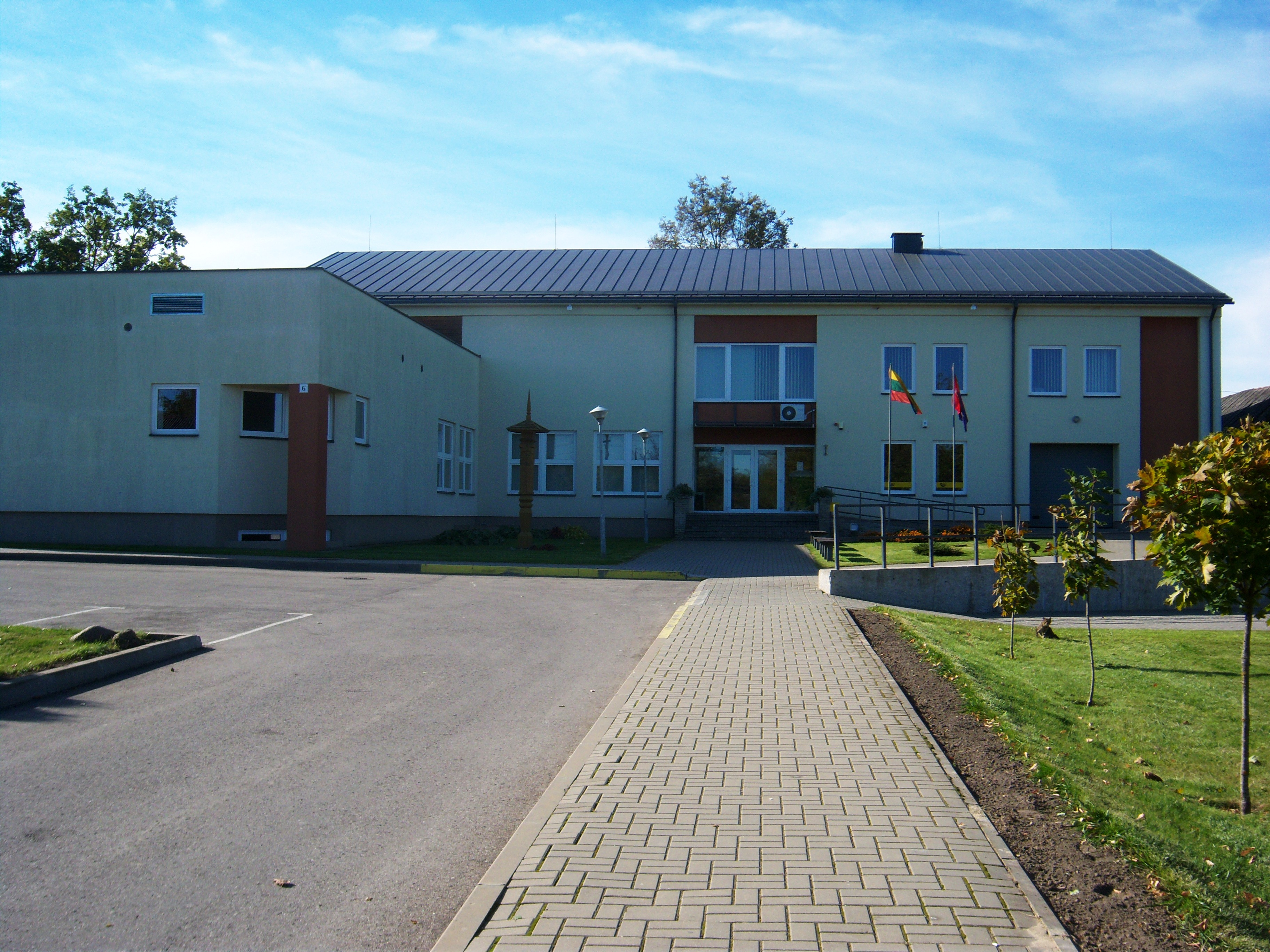 Liudvinavas, eldership, Marijampolė Municipality, Lithuania